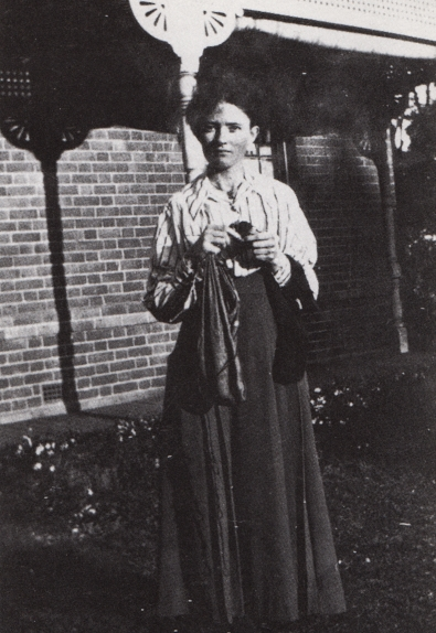 Photograph of Australian artist Grace Cossington Smith, outside her home in Turramurra